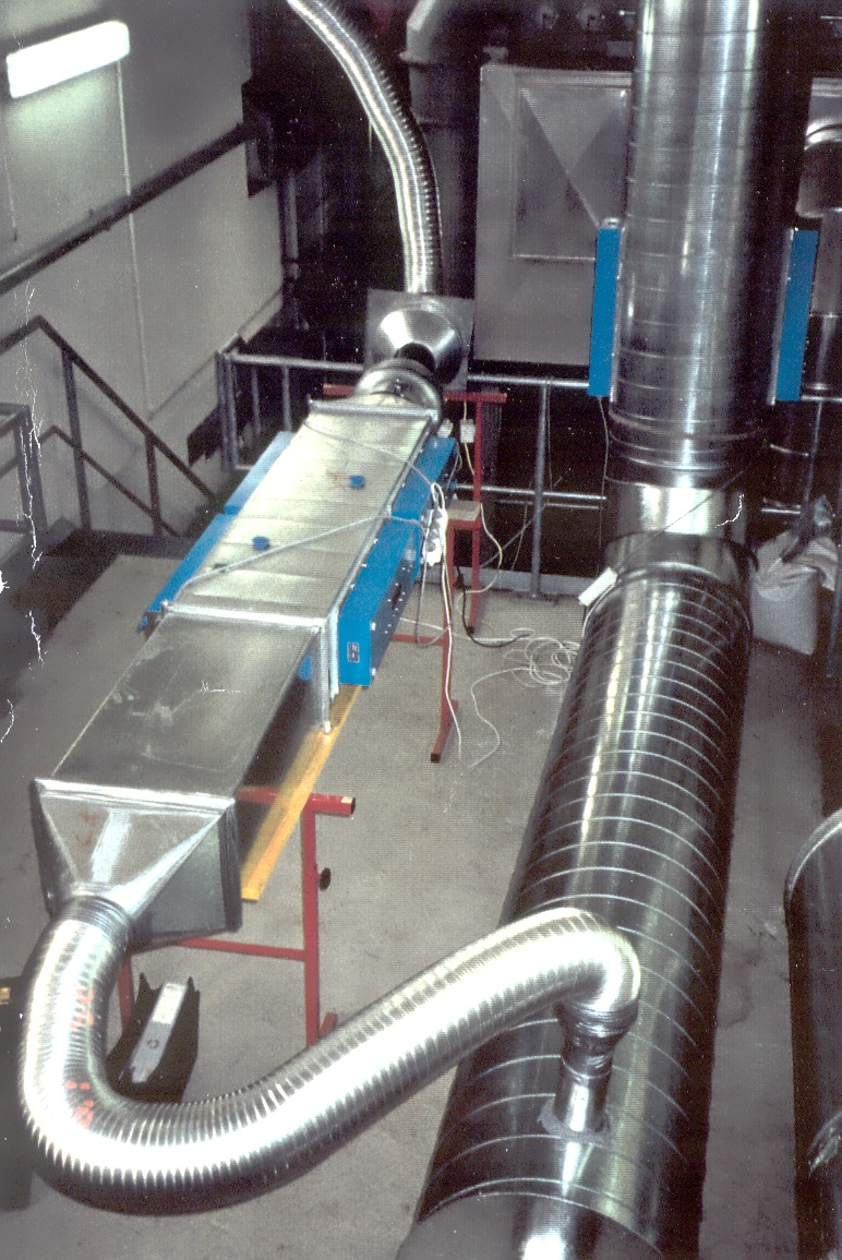 Bypass system in ventilation technology with ionization devices, for processing the air.